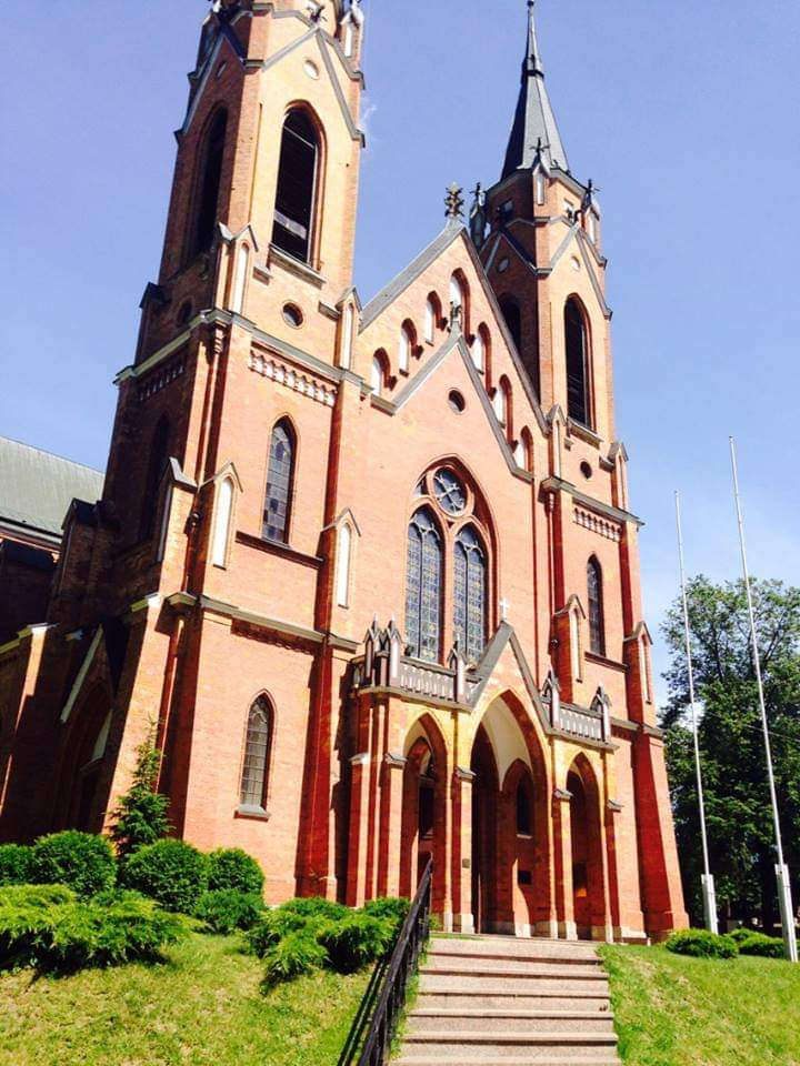 parafia w Rajgrodzie